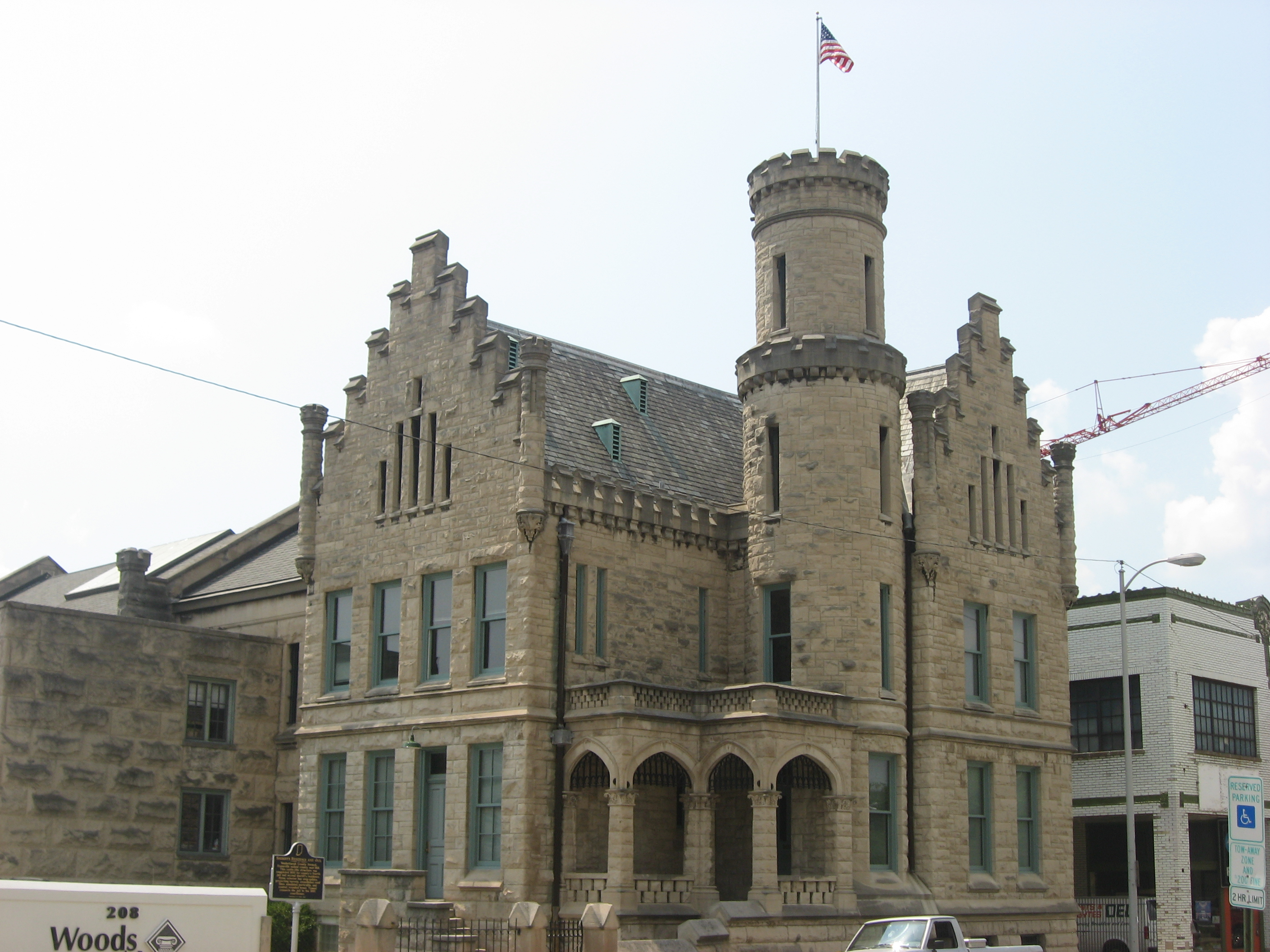 Front of the Former Vanderburgh County Sheriff's Residence, located at 208 NW. Fourth Street in Evansville, Indiana, United States. Built in 1891, it is listed on the National Register of Historic Places.